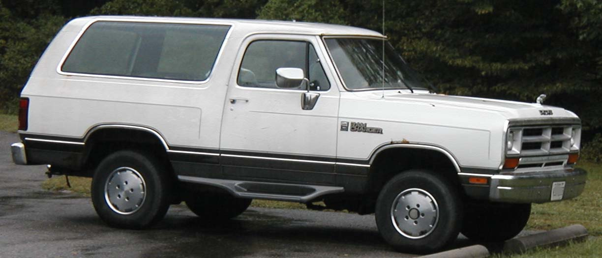 1986-1990 Dodge Ramcharger photographed in USA.